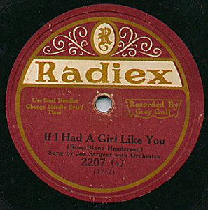 Radiex Records label 78